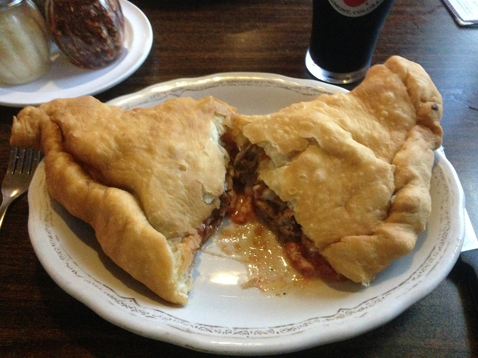 A pizza puff, at Countryside Saloon in Des Plaines, Illinois.